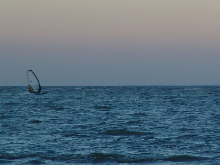 Windsurfing on the IJsselmeer near Enkhuizen at dusk.